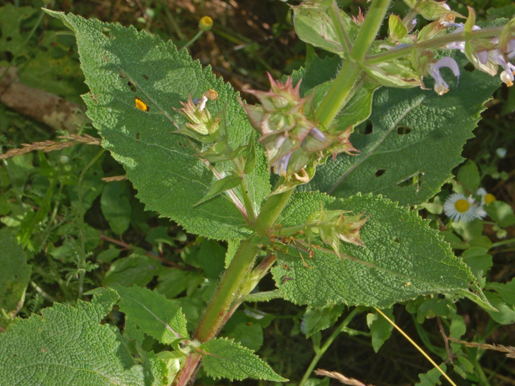 Salvia sclarea - S. Agata Fossili, Alessandria, Italy